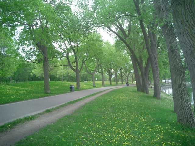 Bicycle and walking and running path, Lake Calhoun, Minneapolis, Minnesota